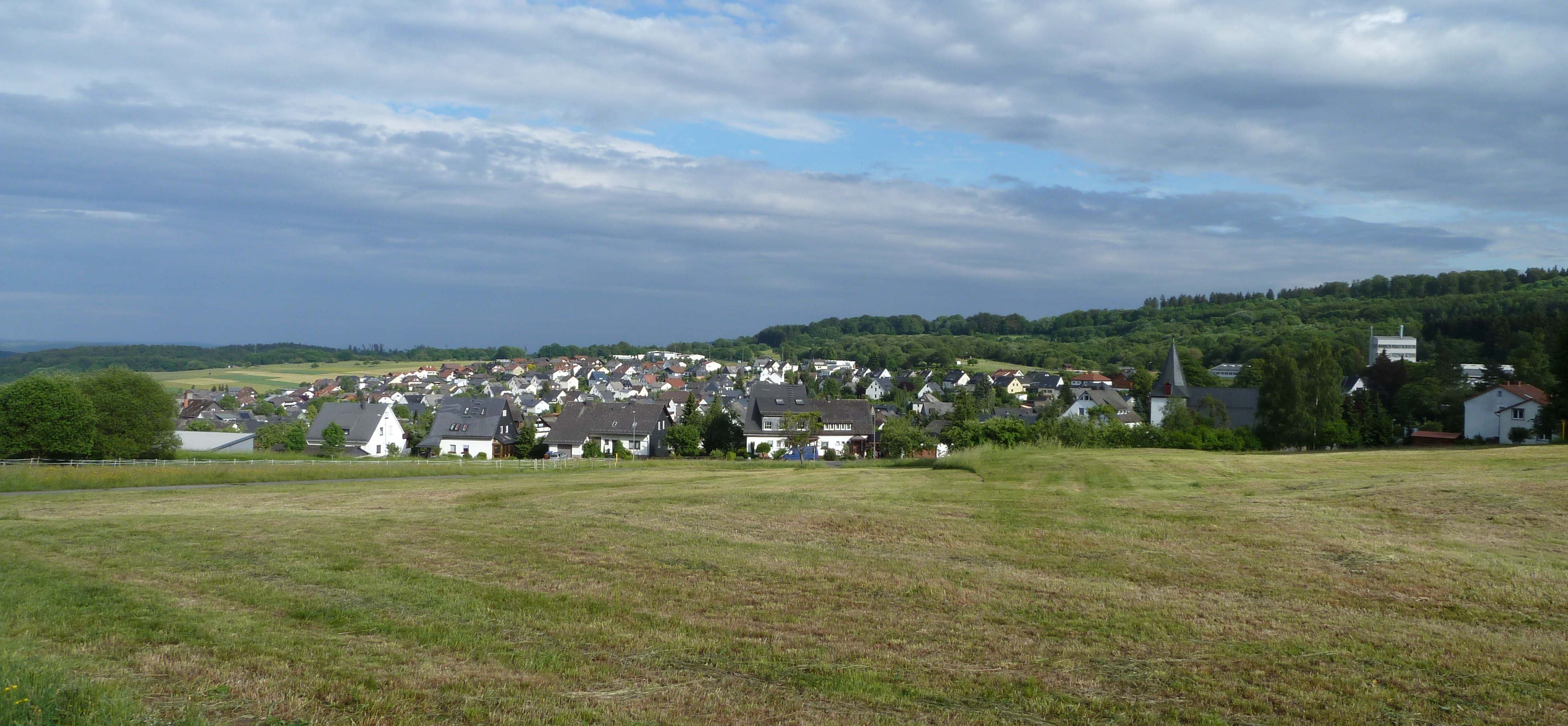 Breitscheid, Hesse, Germany